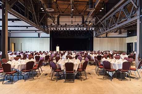 Kenneth Rowe Hall - Rentals